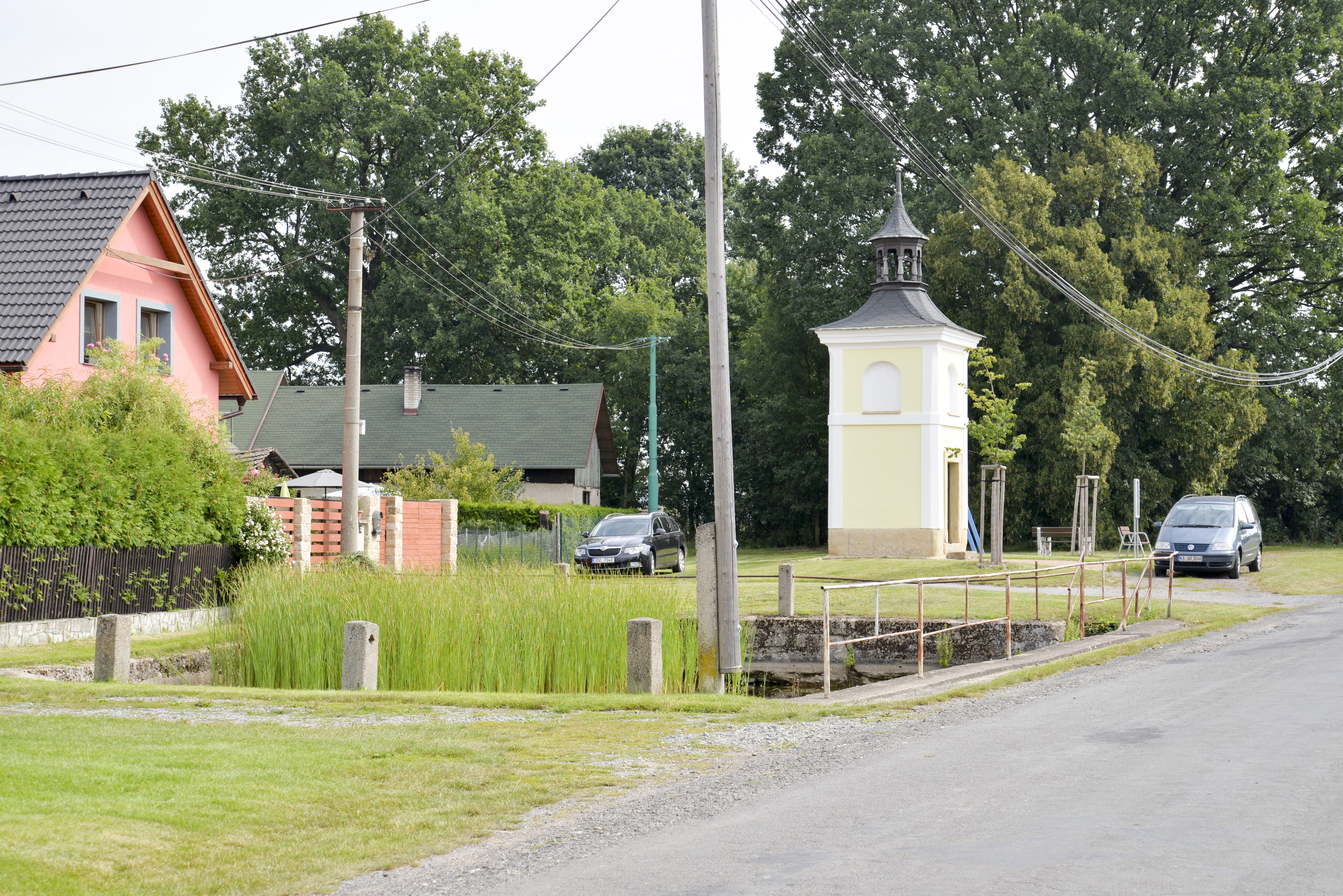 Chlumín - small village, part of Kněžmost in Mladá Boleslav District, village green